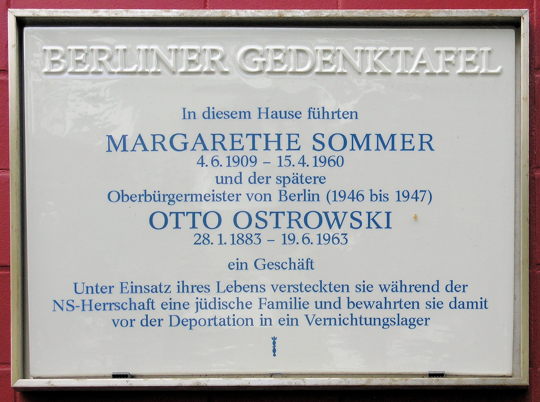 Berlin memorial plaque, Margarethe Sommer, Westfälische Straße 64, Berlin-Halensee, Germany